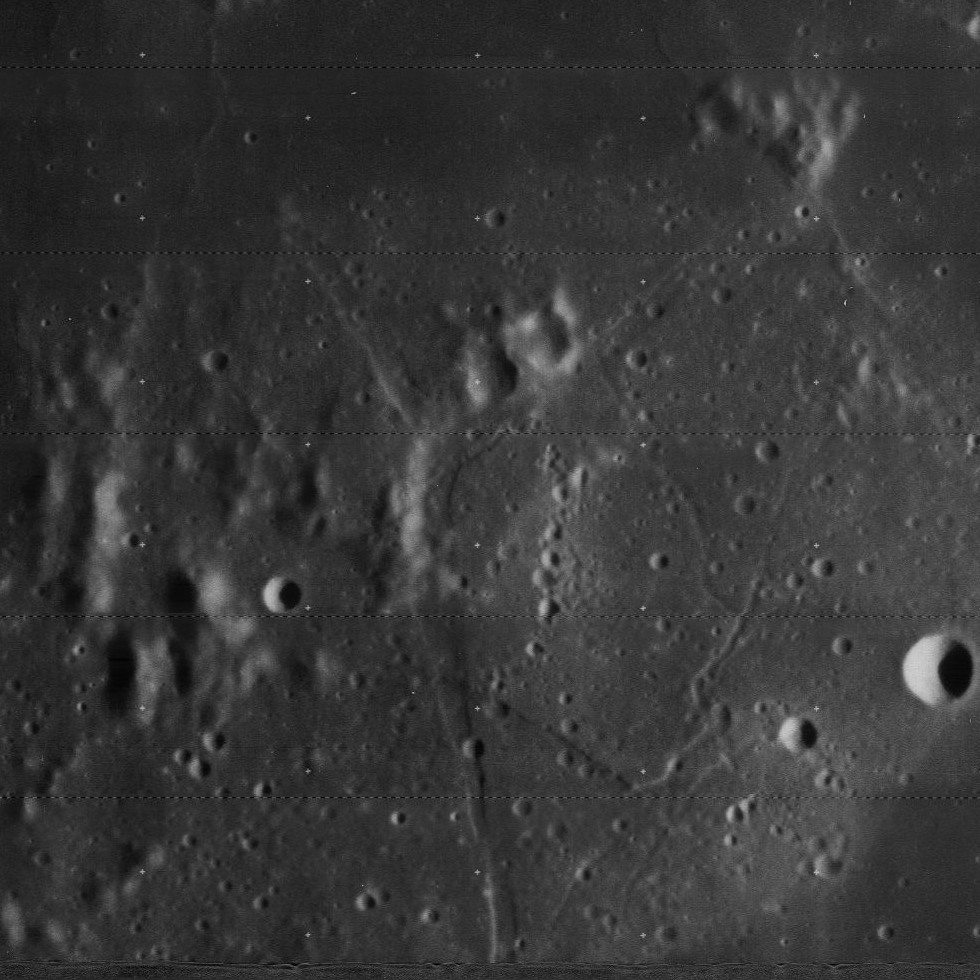 Rimae Opelt, due north of Opelt, on the moon.